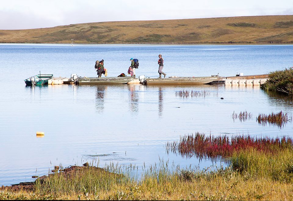 Toolik Lake Research Natural Area, Alaska Toolik Lake RNA was designated in 1990 as an Area of Critical Concern (ACEC) to protect a natural lake and tundra biome in the foothills of the Brook Range on Alaska's North Slope. The Toolik Lake area has been extensively used for arctic natural resources research since the 1970s. Today researchers come from all over the world to conduct cutting-edge research in all aspects of arctic biology, geology, chemistry, and more. The Toolik Field Station, located within the ACEC and operated by the University of Alaska, provides researchers with lodging, laboratories, and logistical support. Photos by Craig McCaa, BLM